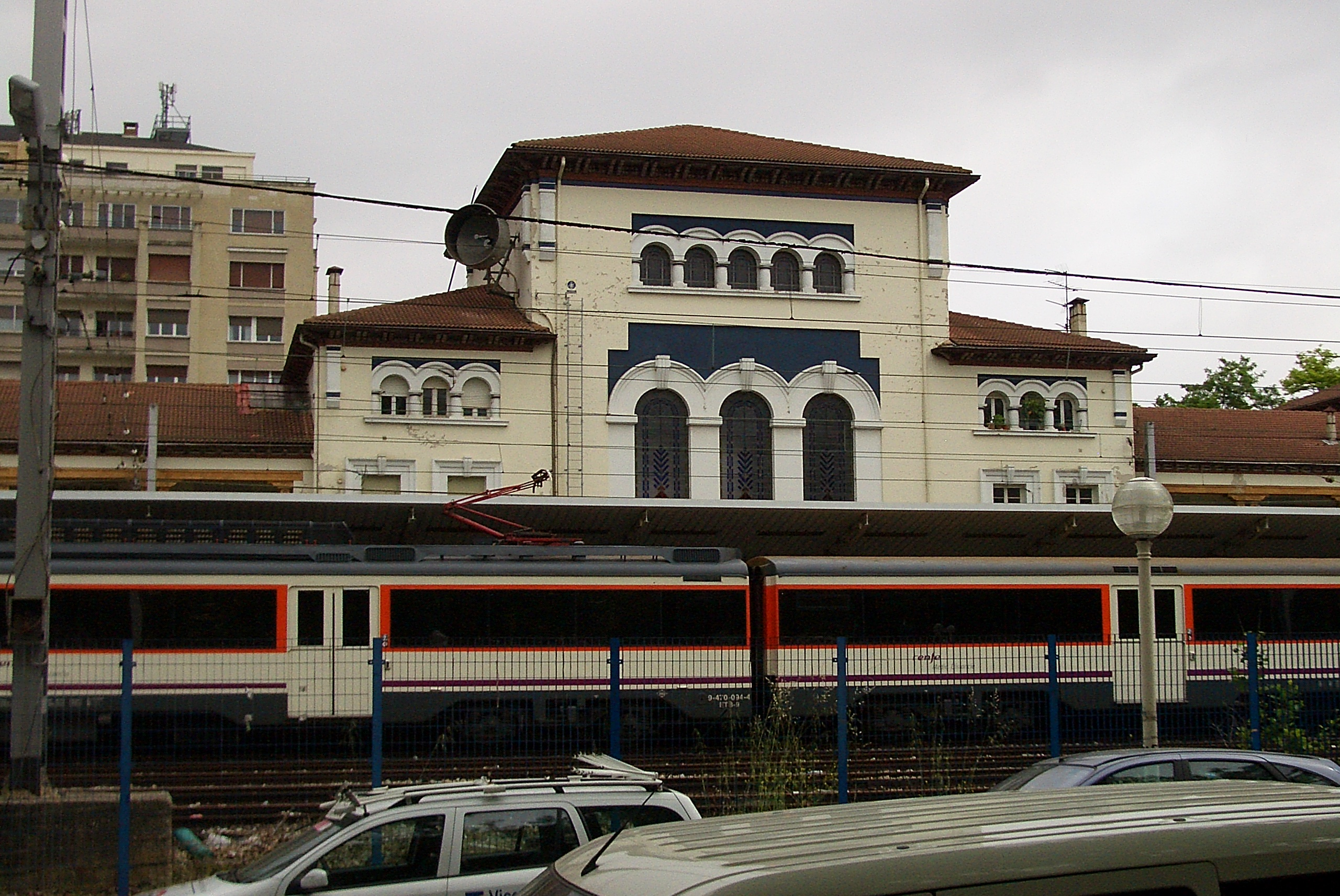 Train station in Vitoria-Gasteiz